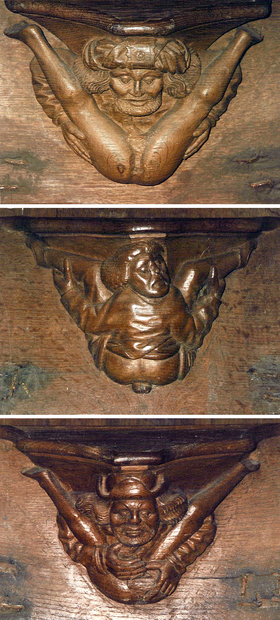 Misericords from the cathedral of Treguier (29) (France)